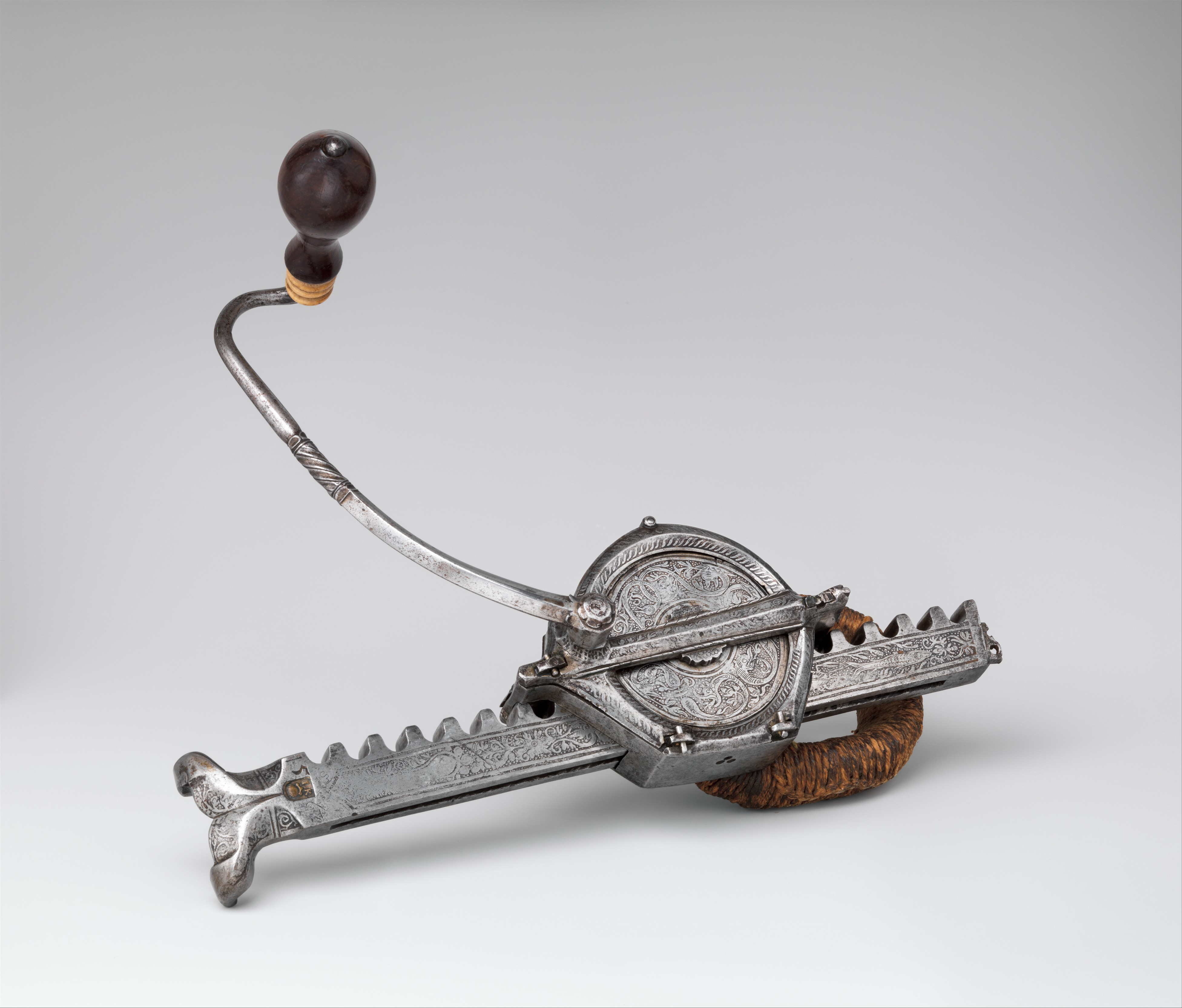 probably German, possibly Saxony; cranequin, probably German; Crossbow with cranequin (winder); Archery Equipment-Crossbows